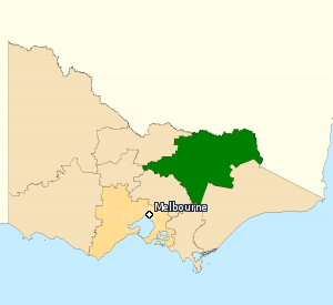 This image incorporates data that is: © Commonwealth of Australia (Australian Electoral Commission) 2009 Division of Indi 2010